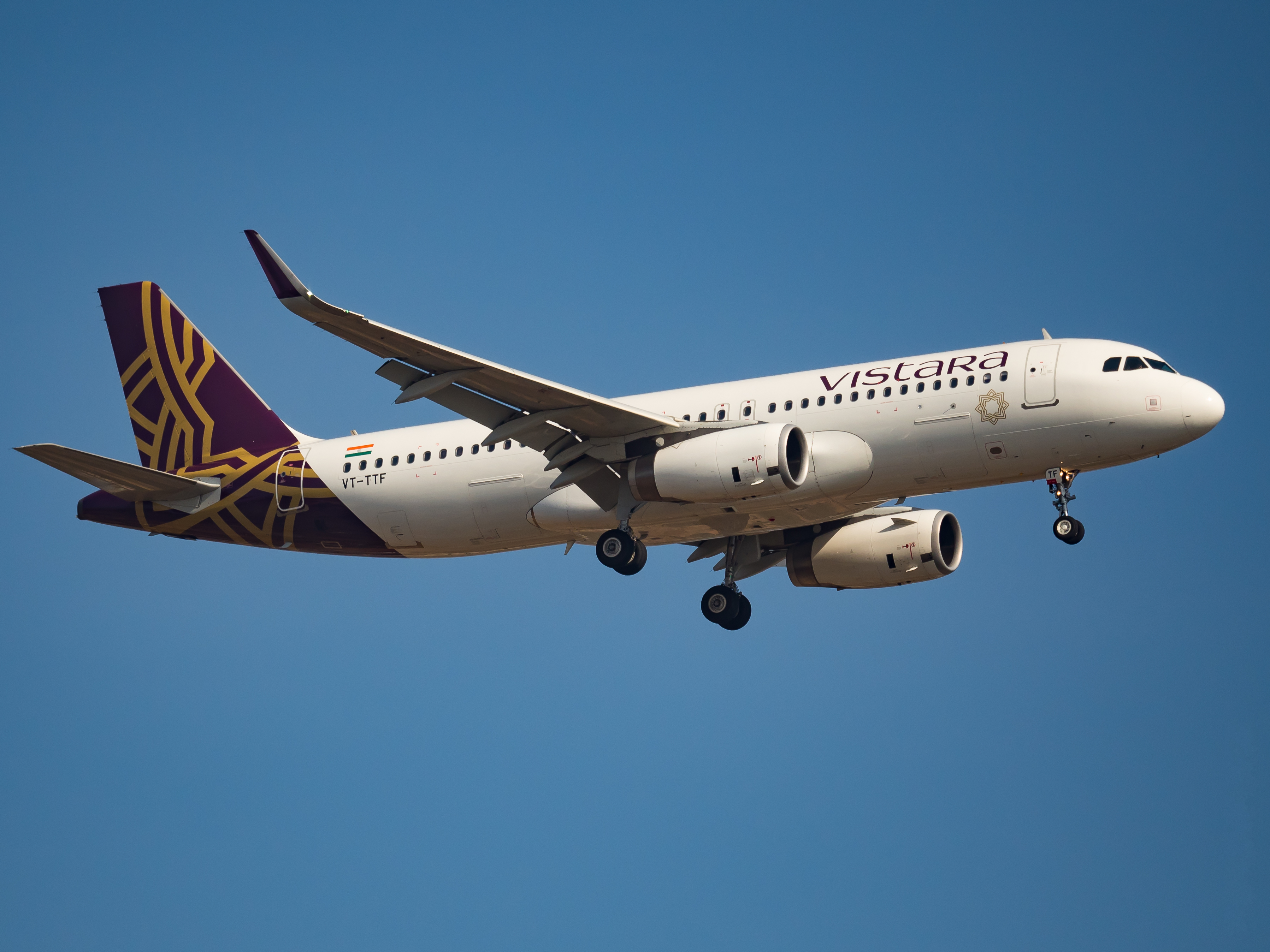 Vistara Airbus A320-200 registered VT-TTF at Kempegowda International Airport, Bengaluru, India.